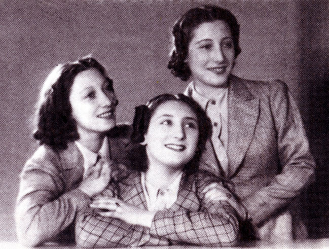 Trio Lescano in 1940, from the publicity photograph for Parlami d'amore Mariù.